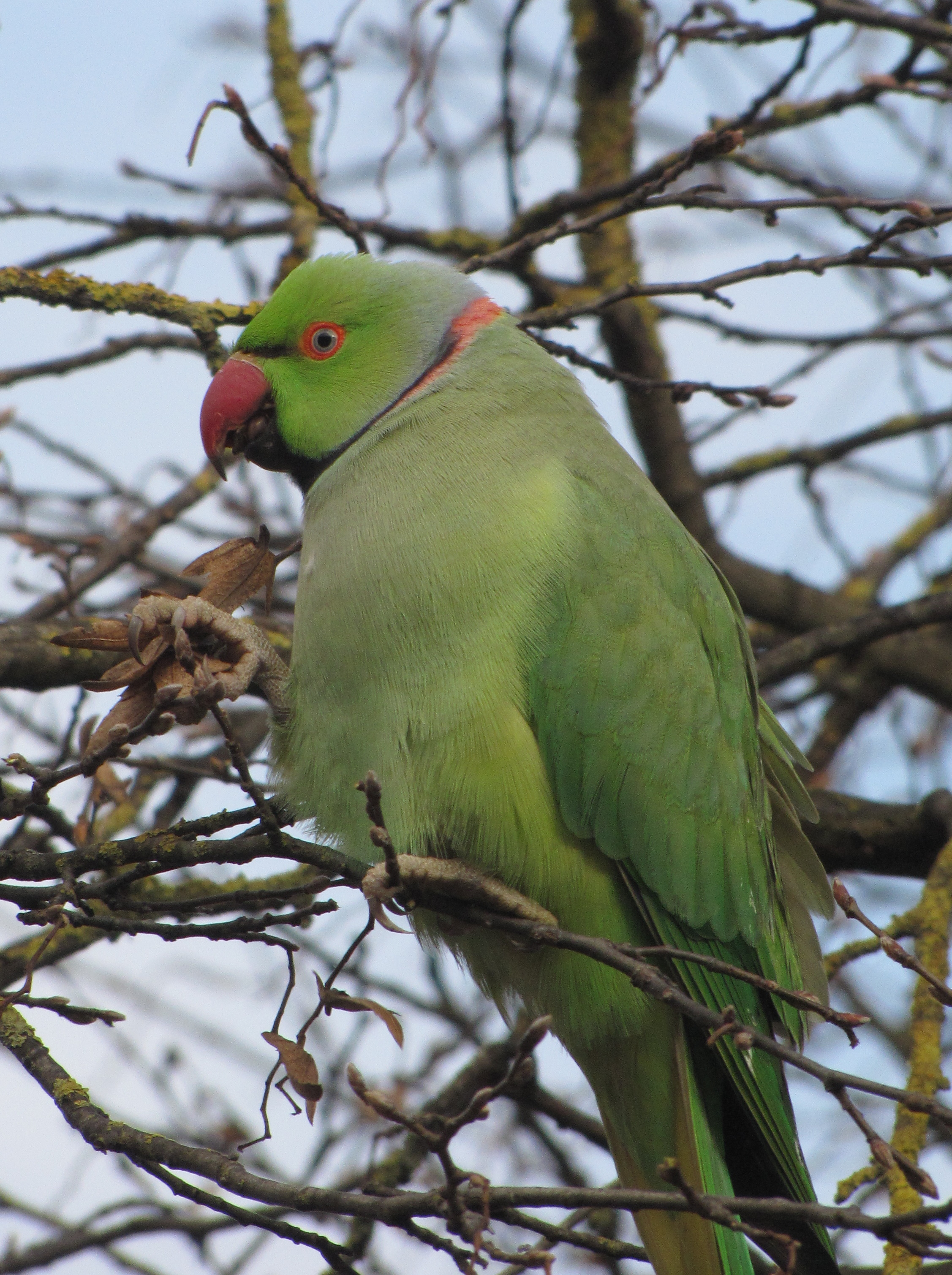 A male Rose-ringed Parakeet (also known as the Ringnecked Parakeet) in Richmond Park, London, England.